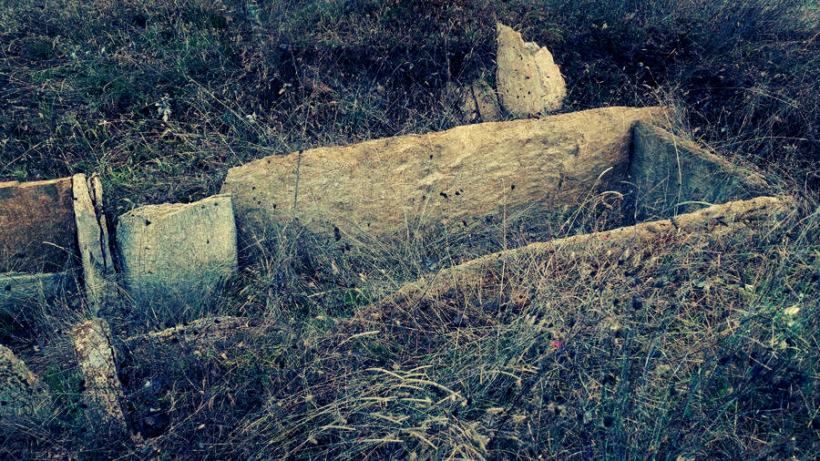 Plevun dolman BG